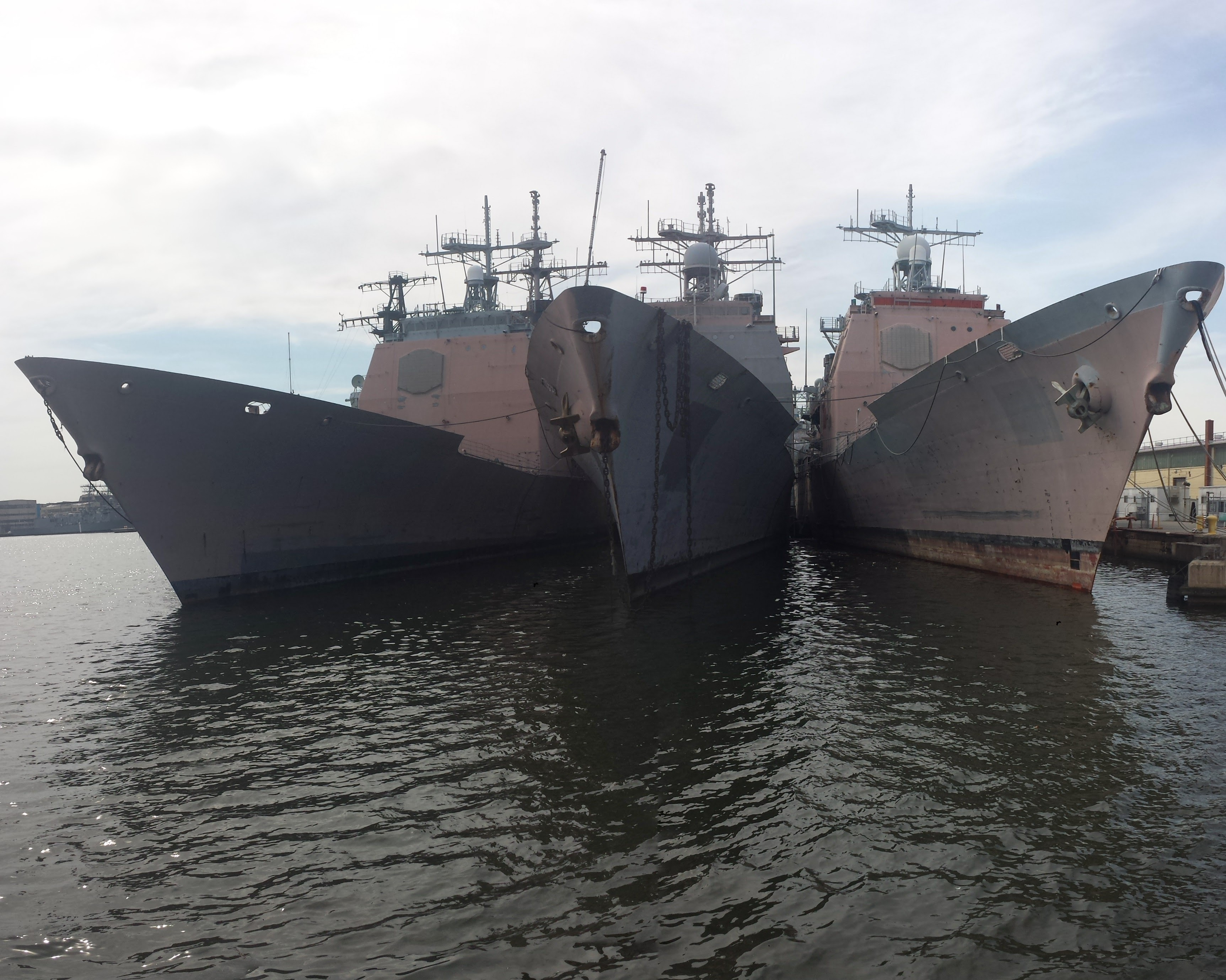 Three decommissioned U.S. Navy Ticonderoga Class Guided Missile Cruisers ex-Ticonderoga (CG-47), ex-Yorktown (CG-48) and ex-Thomas S. Gates (CG-51) laid up at Naval Inactive Ships Maintenance Facility, Philadelphia, Pennsylvania.